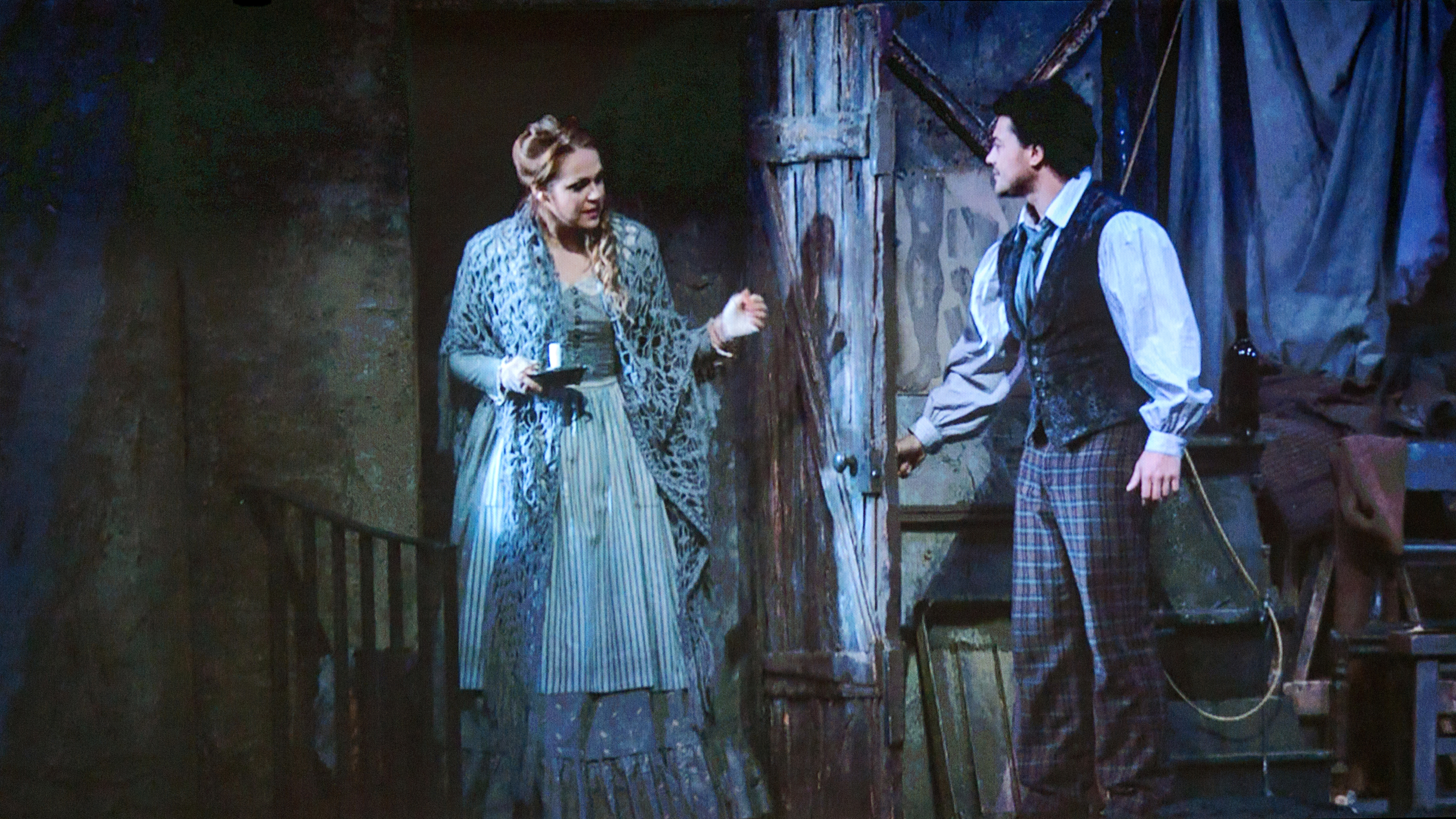 La Bohème from the Metropolitan Opera April 2014